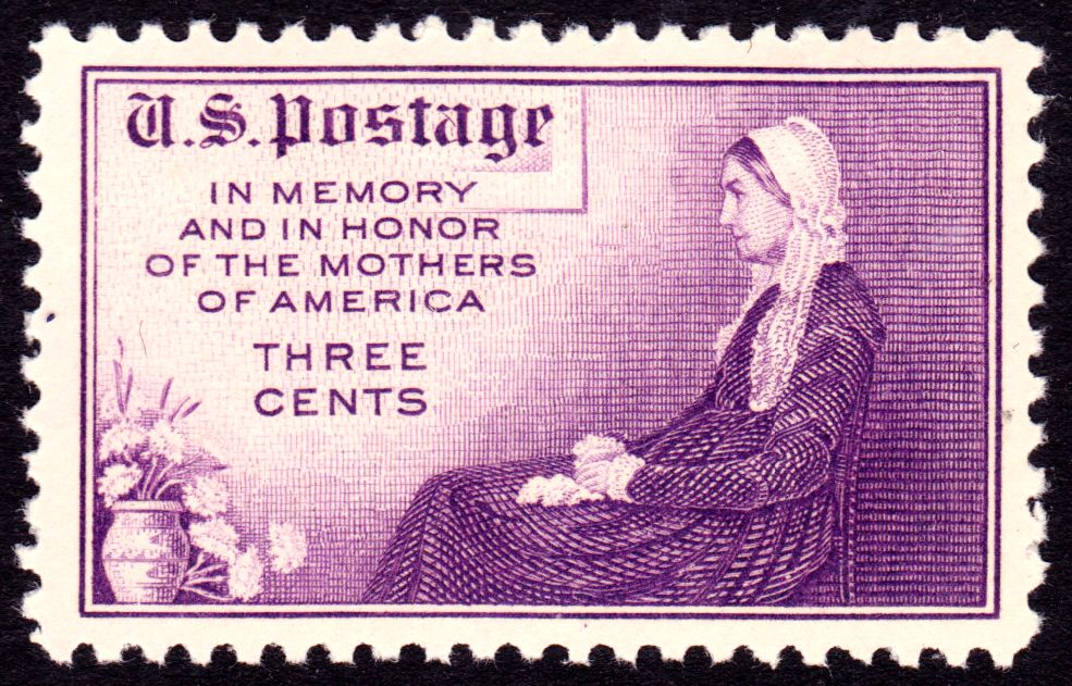 Whistler's Mother 1934 Issue 3c